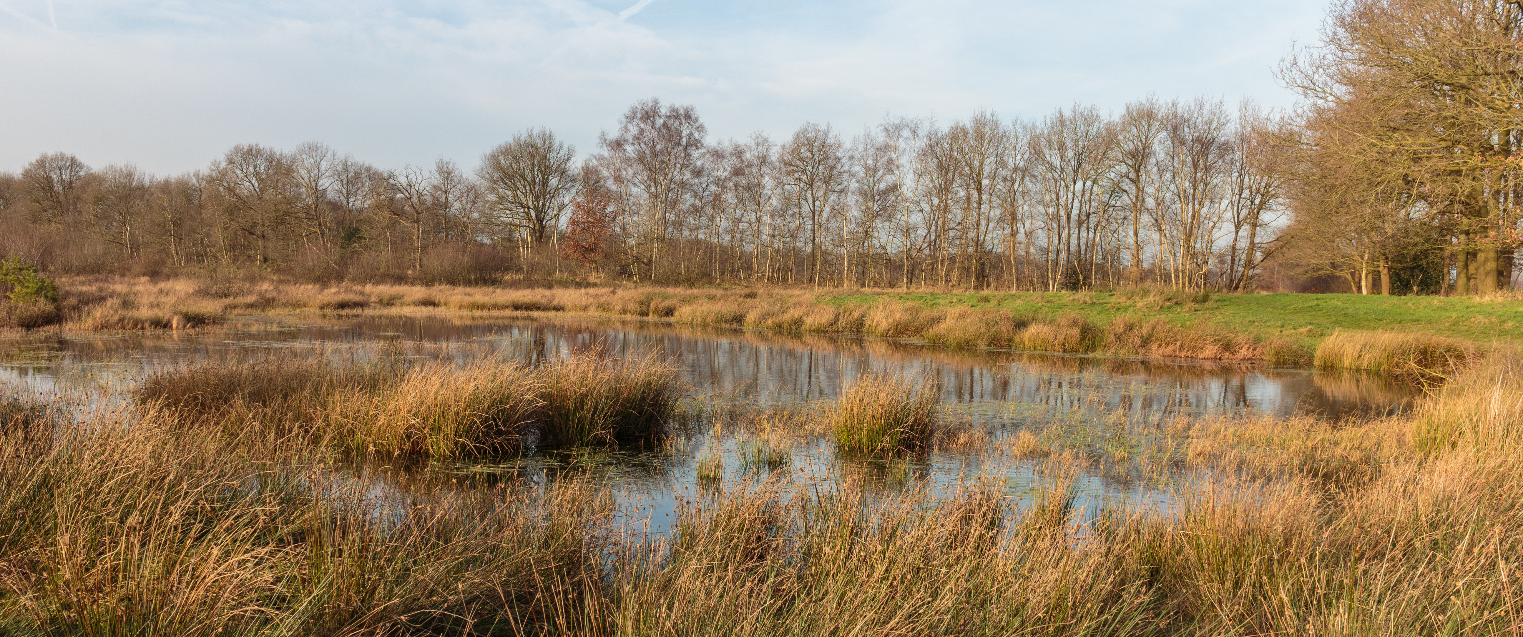 Diakonievene. Nature reserve based on a collapsed pingo administerd by "It Fryske Gea" (Friesland's provincial nature protection organisation). In the past peat was taken from the pingo further depressing its level. It is surrounded by a natural dyke with trees that give the area a hilly appearance.